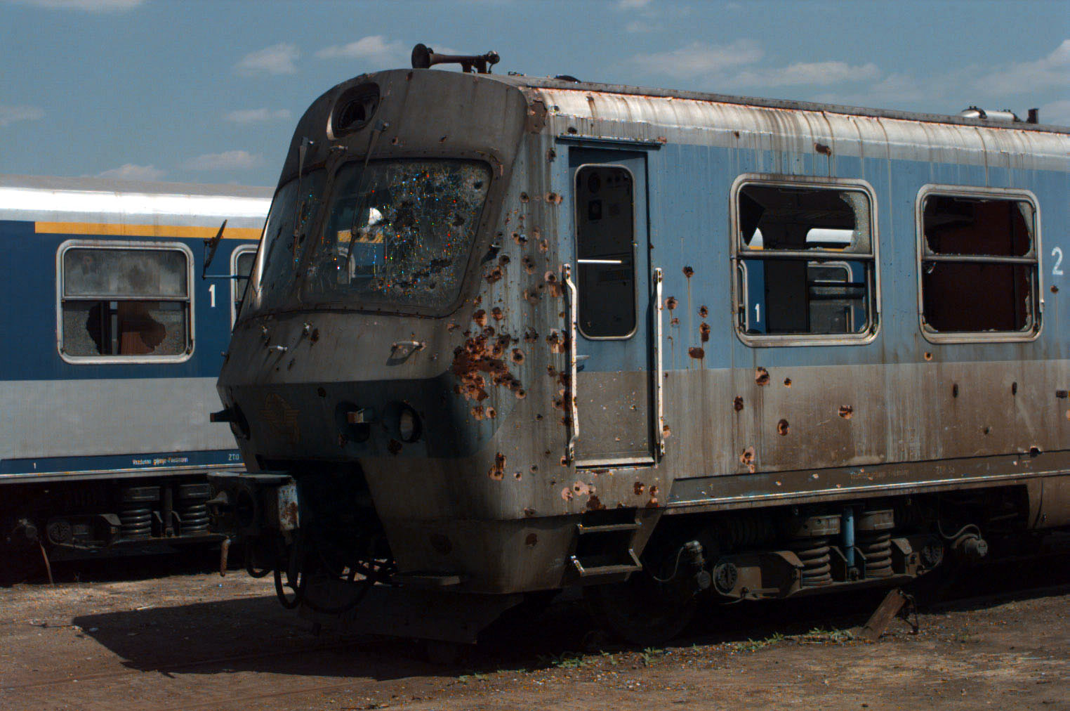 One of the many trains in the train yard at the Rajlovak train facility, located on the outskirts of Sarajevo, Bosnia and Herzegovina, during Operation JOINT ENDEAVOR. The train needs repair due to the four year war in Sarajevo and the cost of repairs to buildings and trains is estimated to be around one billion dollars.